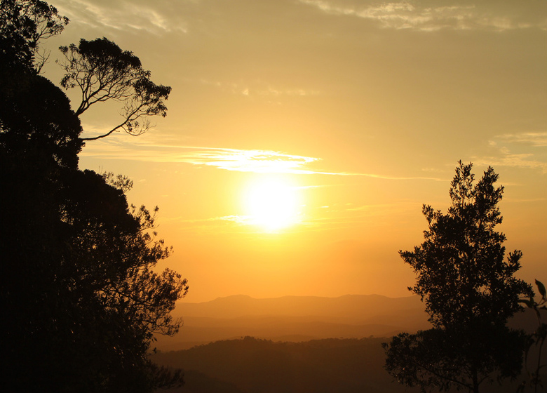 Late afternoon in Parque Estadual do Ibitipoca, in Lima Duarte, Minas Gerais, Brazil.